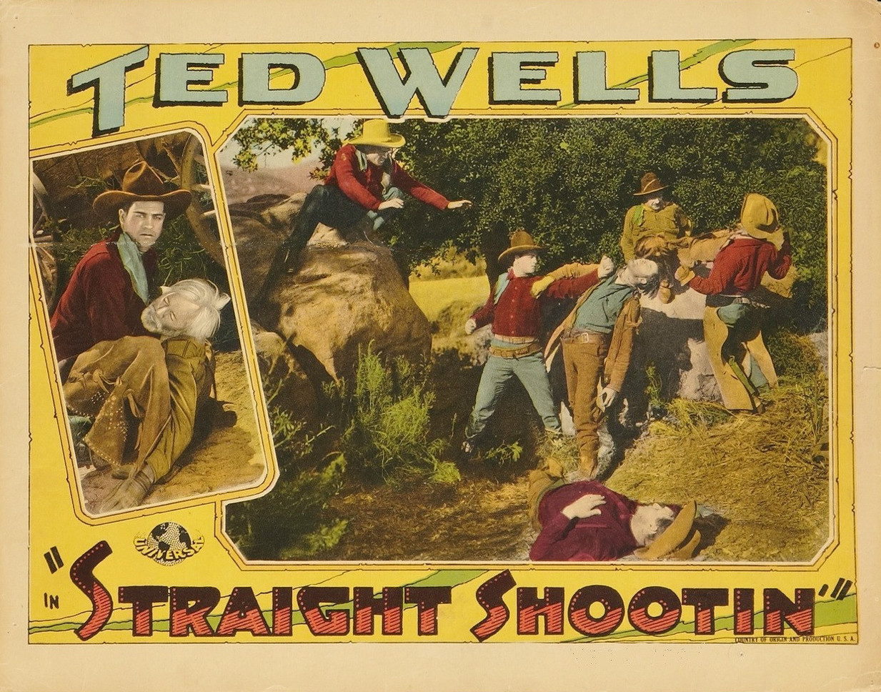 Lobby card for the American western film Straight Shootin (1927) with Buck Connors, Wilbur Mack, Garry O'Dell, and Ted Wells.